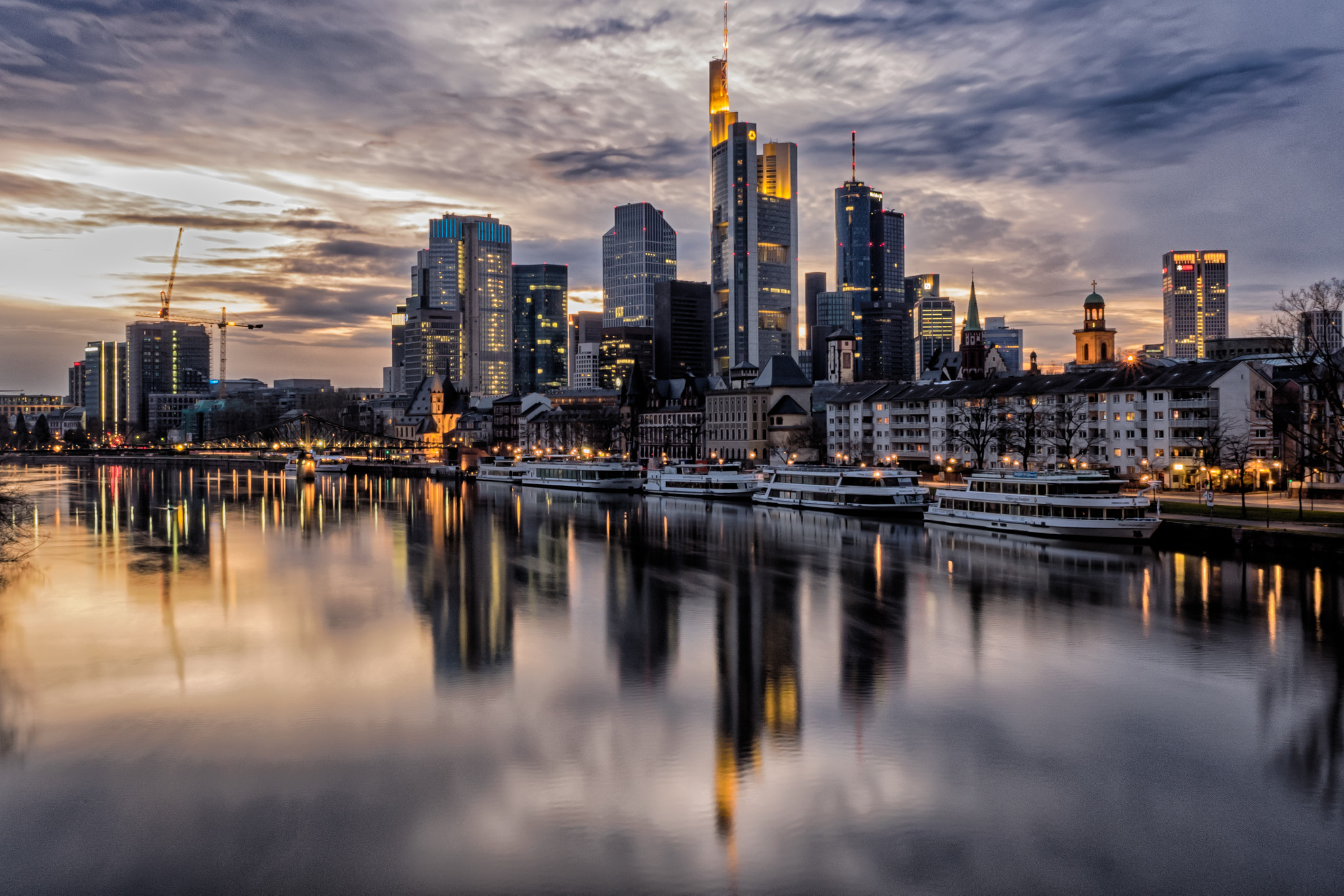 500px provided description: I had on day in Frankfurt and this is my final result. Enjoy! [#sky ,#sunset ,#water ,#reflection ,#river ,#night ,#light ,#architecture ,#cityscape ,#germany ,#long exposure ,#olympus ,#frankfut]